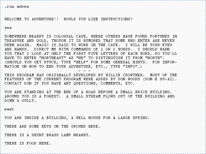 Print terminal output of Crowther/Woods Colossal Cave Adventure (1977) running on a PDP-10.